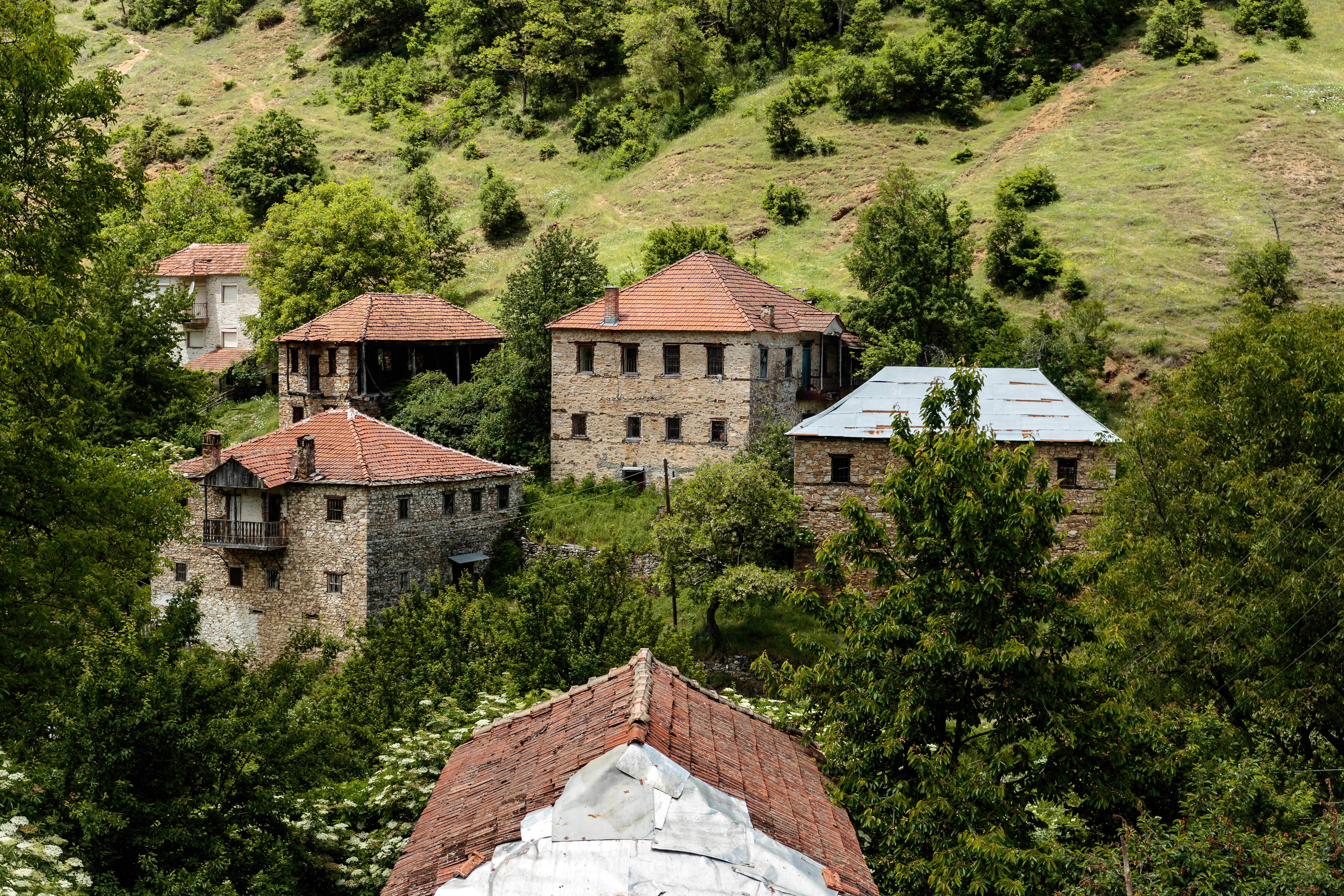 View of the village Brezovo